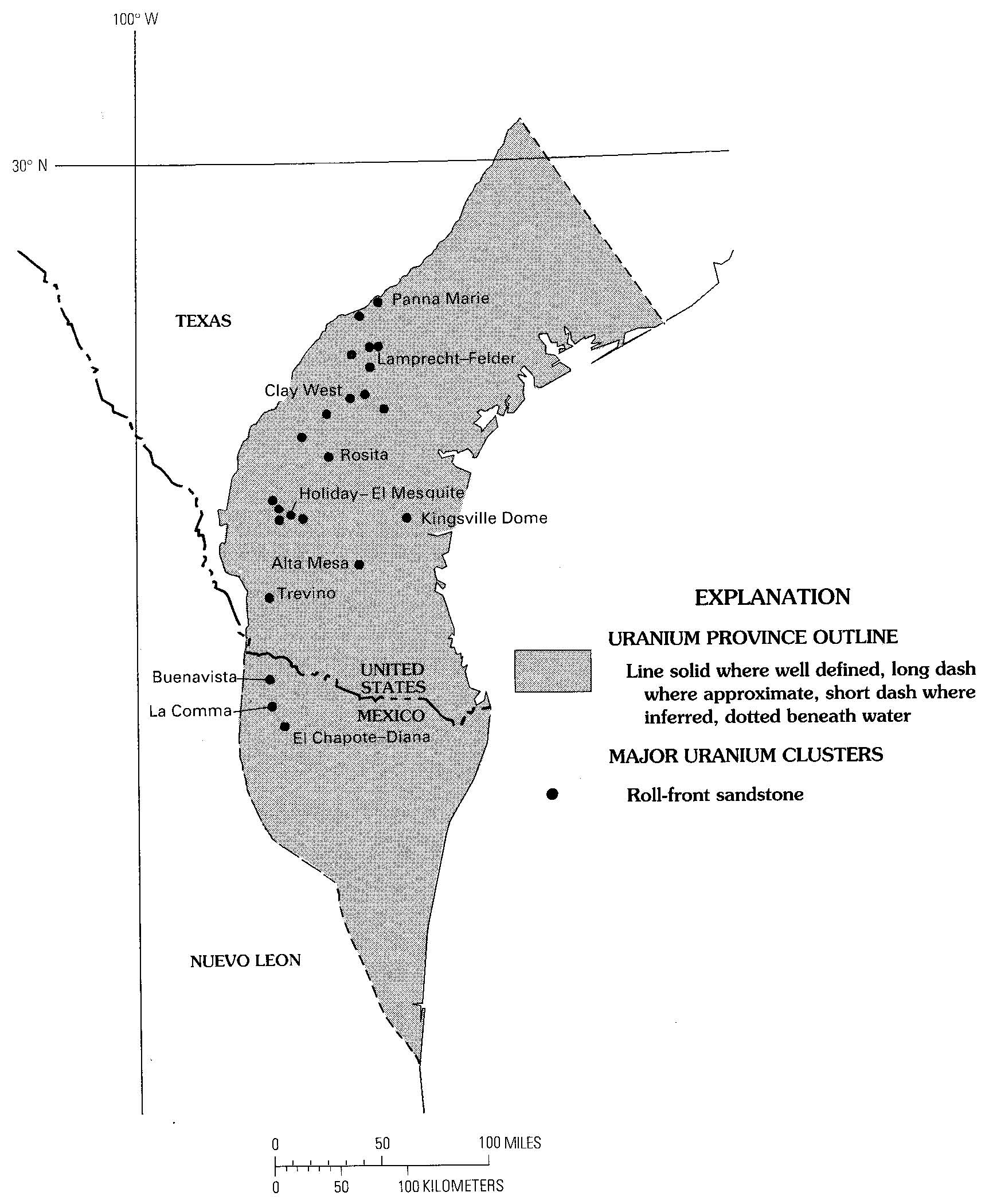 Map of the Gulf Coast uranium province, US and Mexico